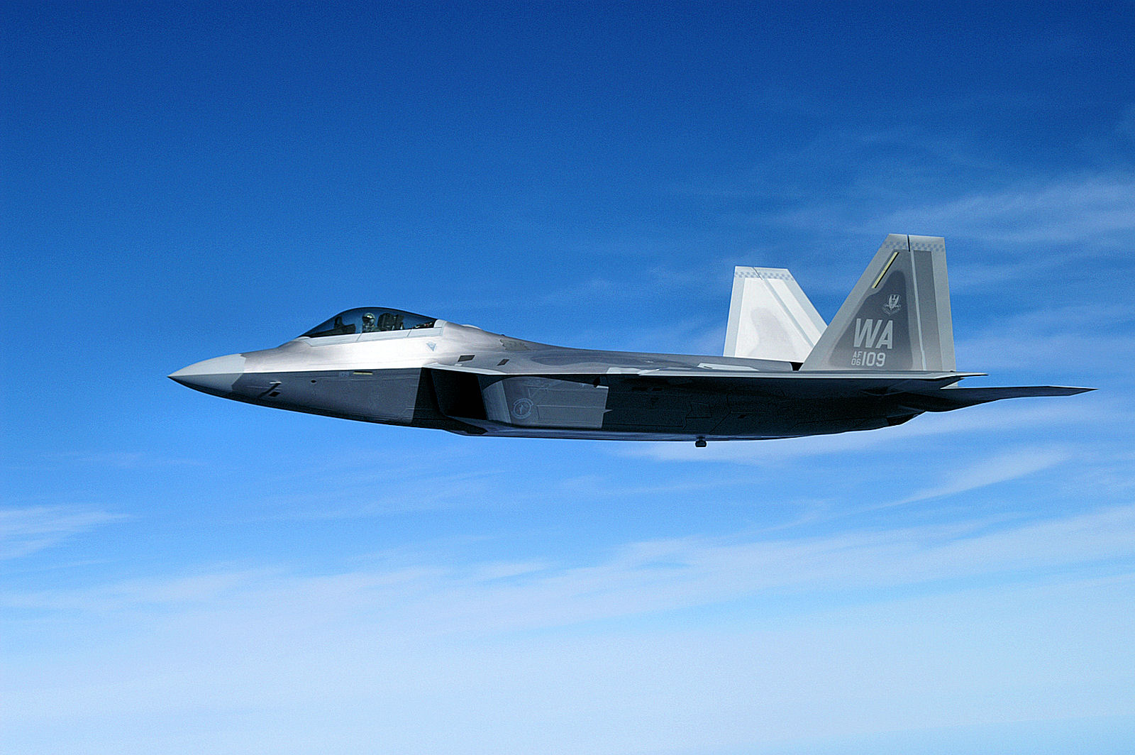 Maj. Micah Fesler, a 433rd Weapons Squadron pilot, flies an F-22A “Raptor” from the Lockheed-Martin factory in Georgia to Nellis AFB, Jan. 9. This Raptor is the first to be delivered to the 57th Wing from Lockheed-Martin, and is scheduled to be used by the U.S. Air Force Weapons School for training of PhD-level instructor pilots. (U.S. Air Force photo by Tech. Sgt. Phil Landram)